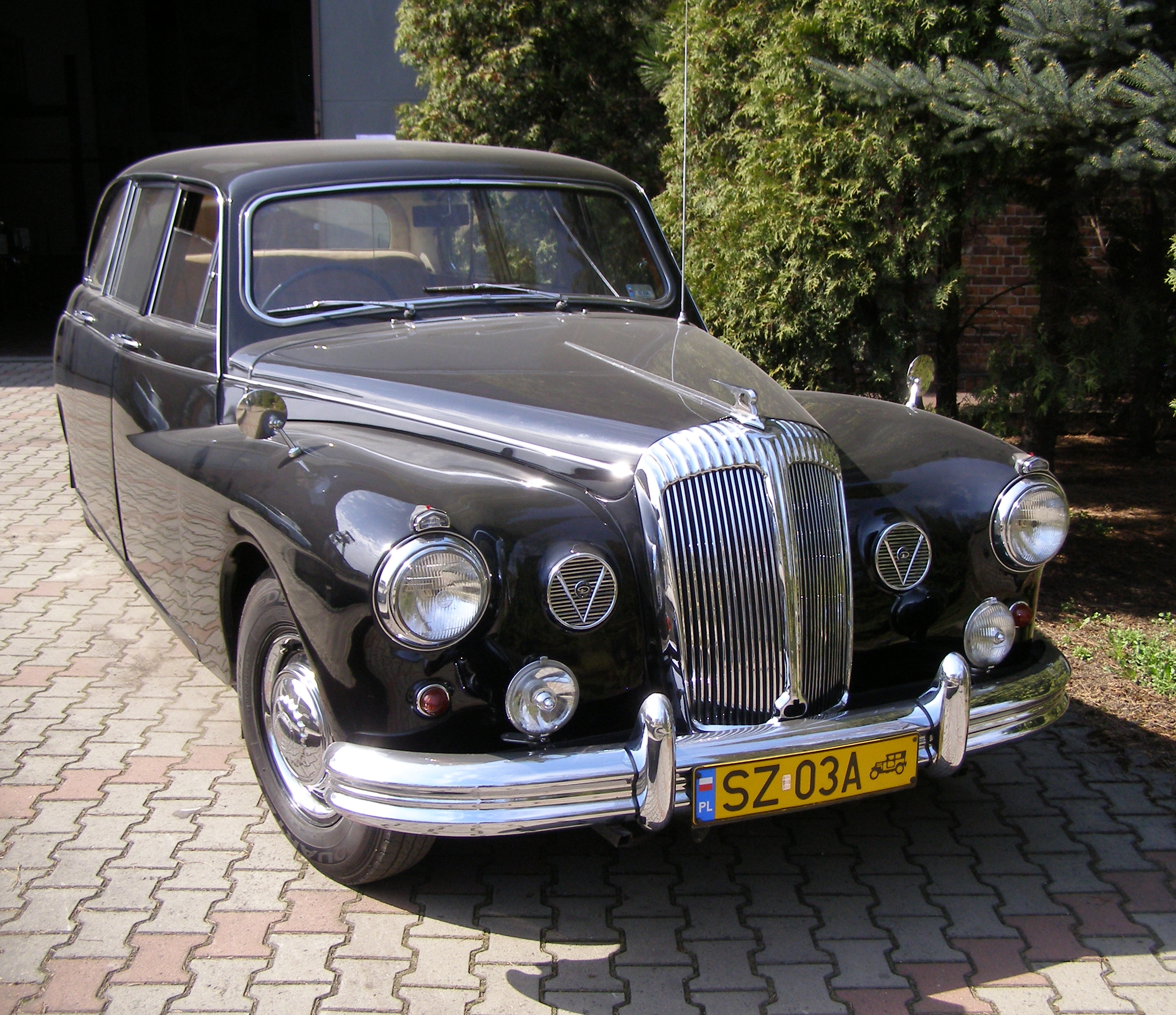 Zabrze - Muzeum of Antique Vehicles of the Silesian Motor Club - a 1966 Daimler Majestic Major